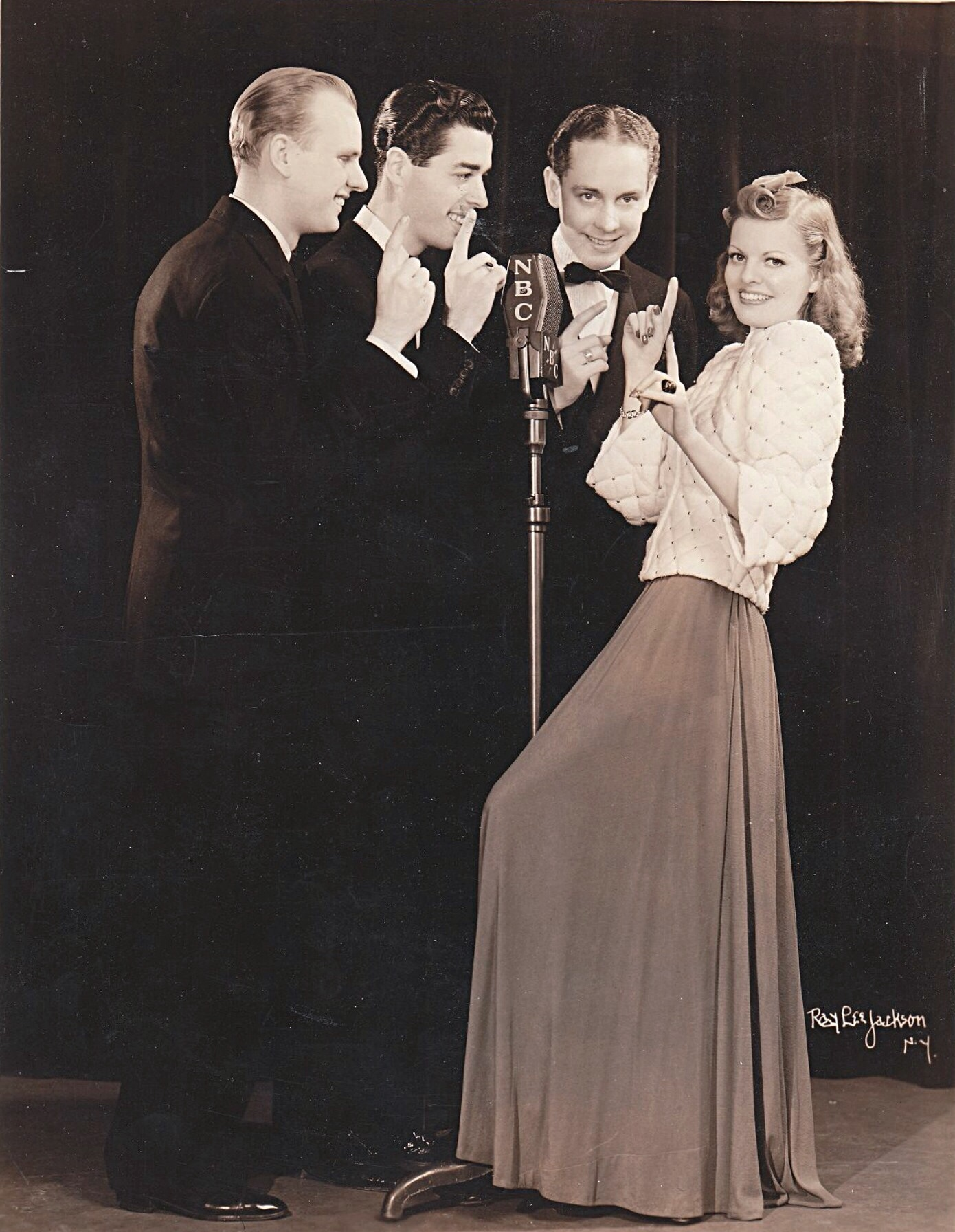 Early publicity photo of the Stardusters with May McKim, posing onstage before an NBC Radio microphone